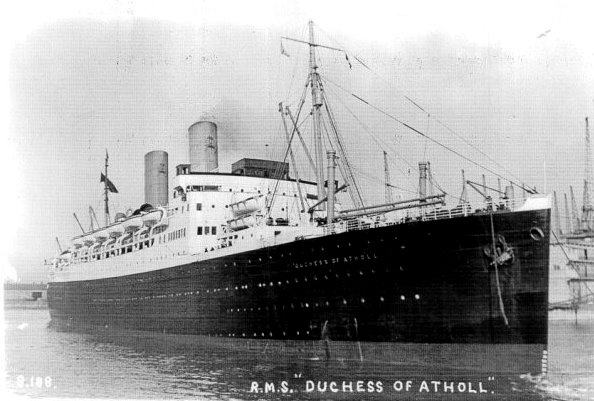 20,019 GRT ocean liner RMS Duchess of Atholl, built in 1928 by Wm Beardmore of Dalmuir, Scotland for the Canadian Pacific Steamship Co. A German submarine torpedoed and sank her in the South Atlantic on 10 October 1942.